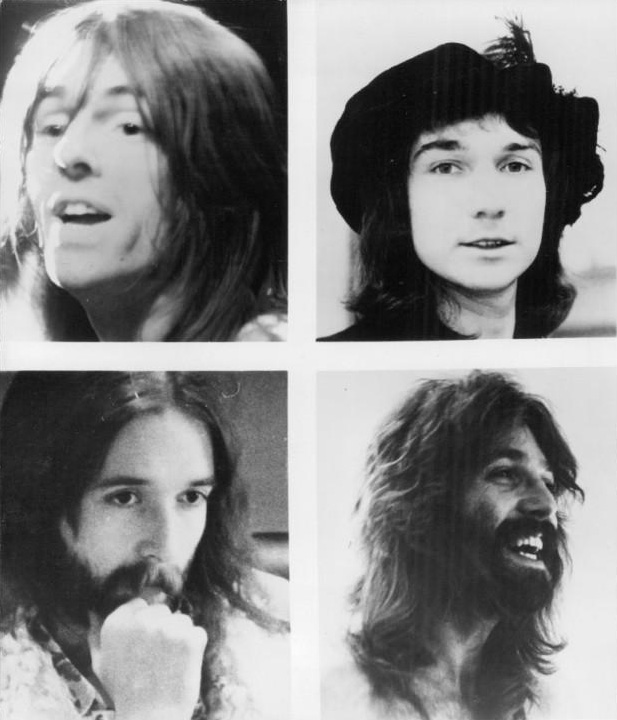 Publicity photo of the musical group Foghat.